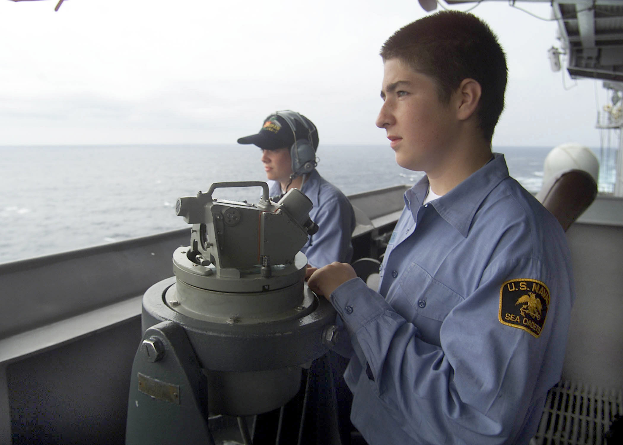 At sea aboard the Amphibious Assault Ship USS Saipan (LHA 2) Jul. 24, 2002 -- Seaman Kelly Jenkins from Somersworth, NH, instructs Sea Cadet Patrick Rosas from Centreville, VA, on how to stand a proper lookout watch while underway. Sea Cadets from Alexandria, VA, are aboard USS Saipan for a week’s summer training and ship familiarization. Saipan is conducting underway training in the Atlantic Ocean. U.S. Navy photo by Photographer's Mate 3rd Class Robert M. Schalk. (RELEASED)